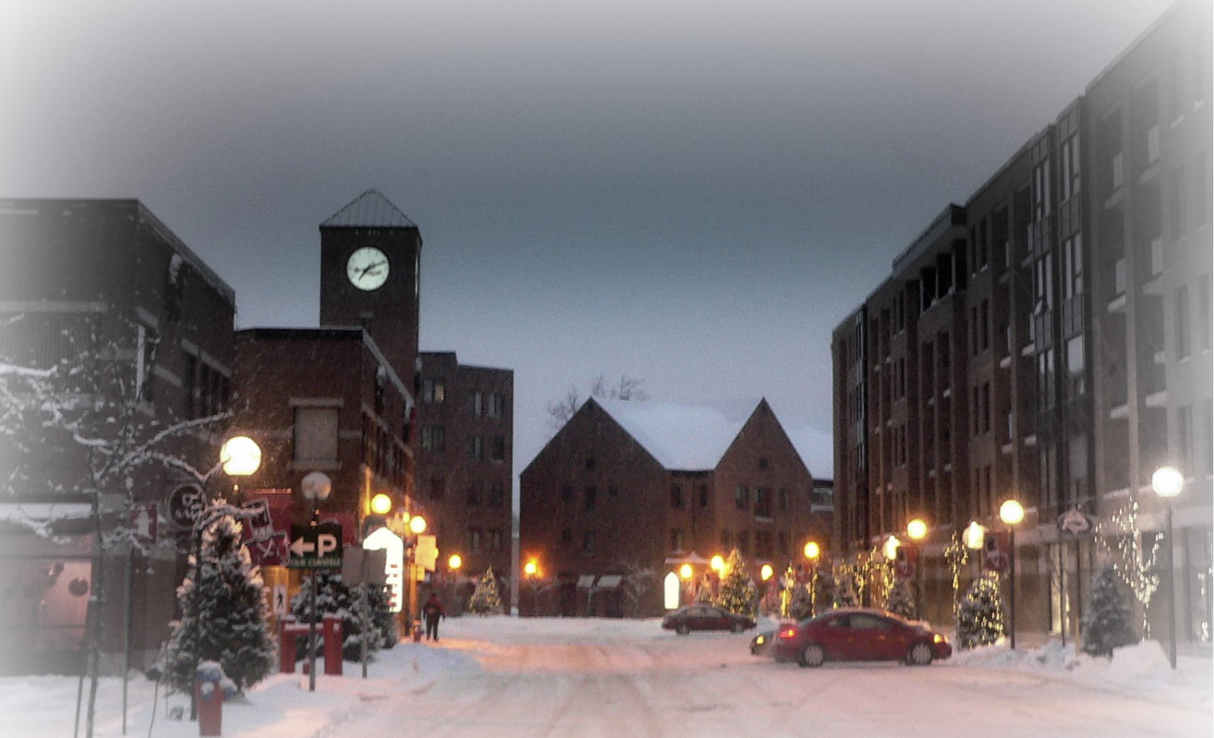 Rue du Campanile, Quebec City, January 2009 - Cropped from original